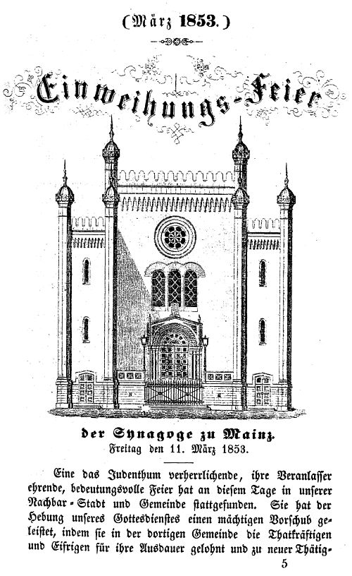 leaflet for the inauguration of the Great synagogue of Mainz (Mayence) in 1853